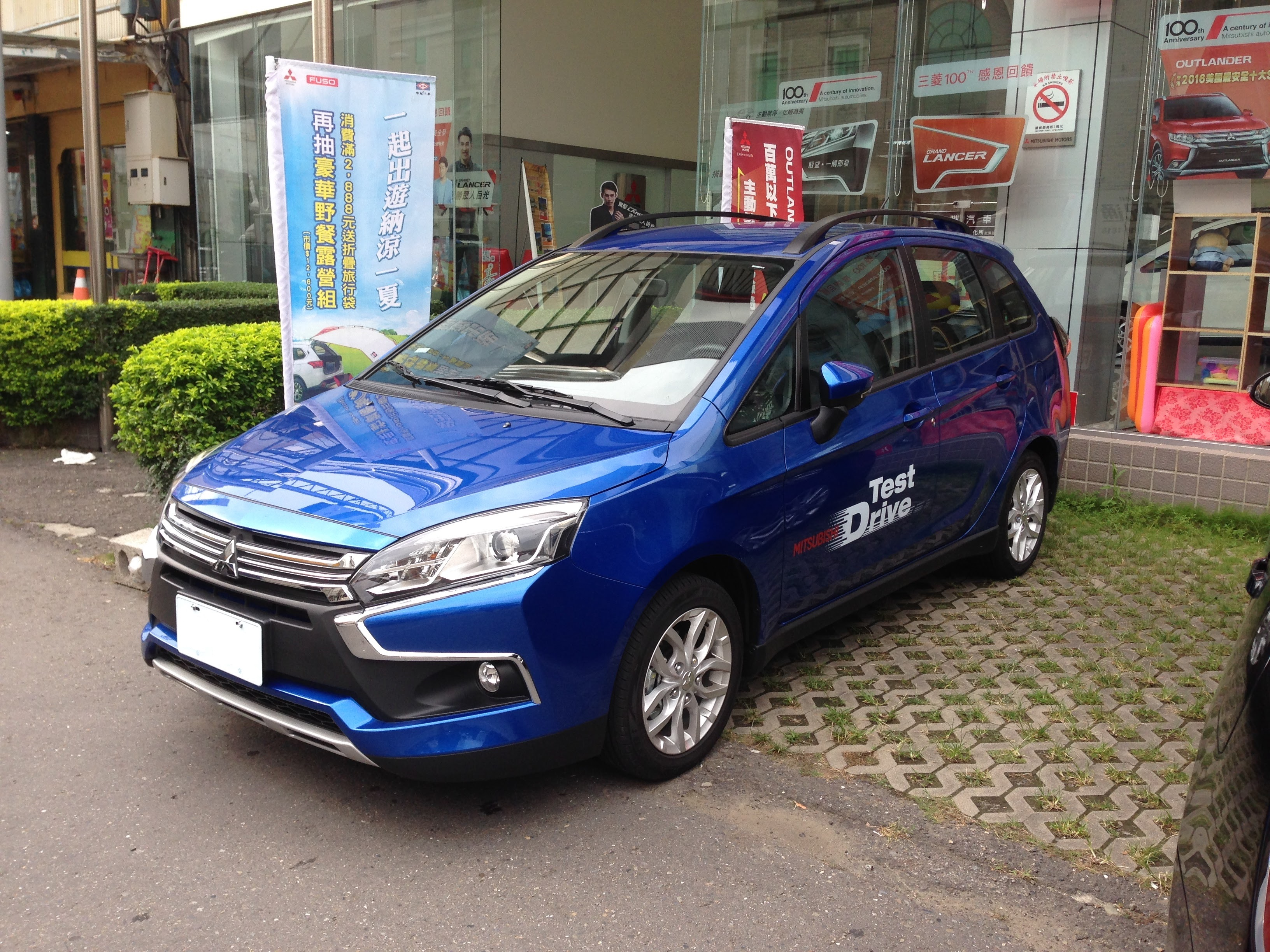 Mitsubishi Colt Plus (2017, Taiwan only)This photograph was taken with an iPhone 5